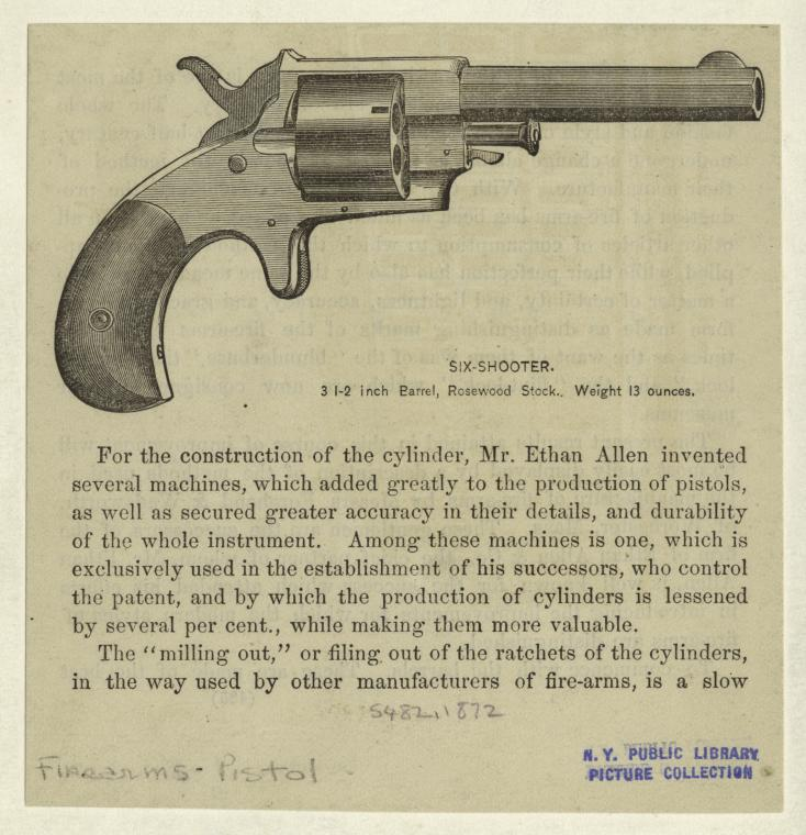 TITLE Six-shooter. Content: Printed on image: "3 1-2 inch Barrel, Rosewood Stock. Weight 13 onces."